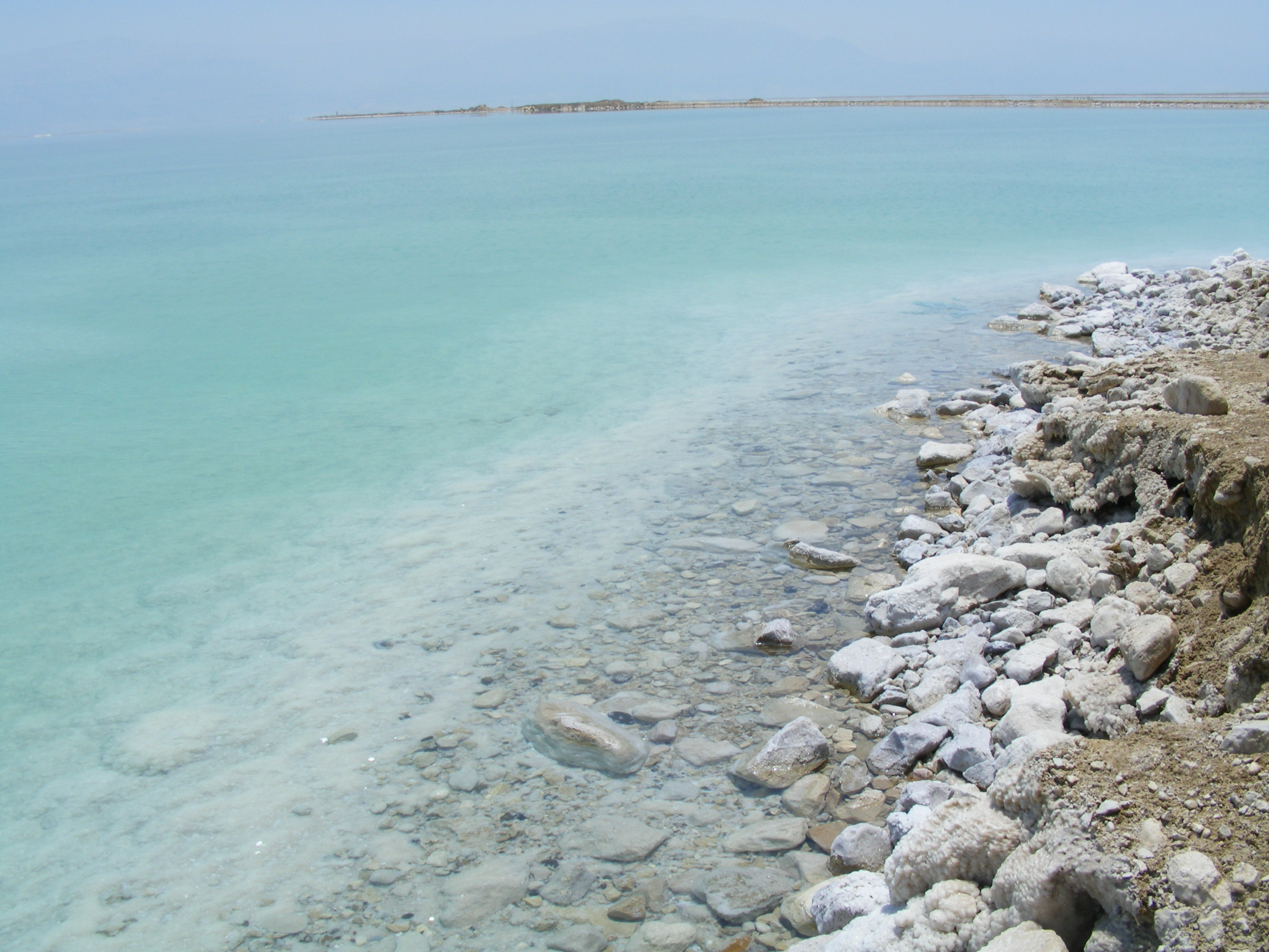 Israel, Dead Sea, En Boqeq